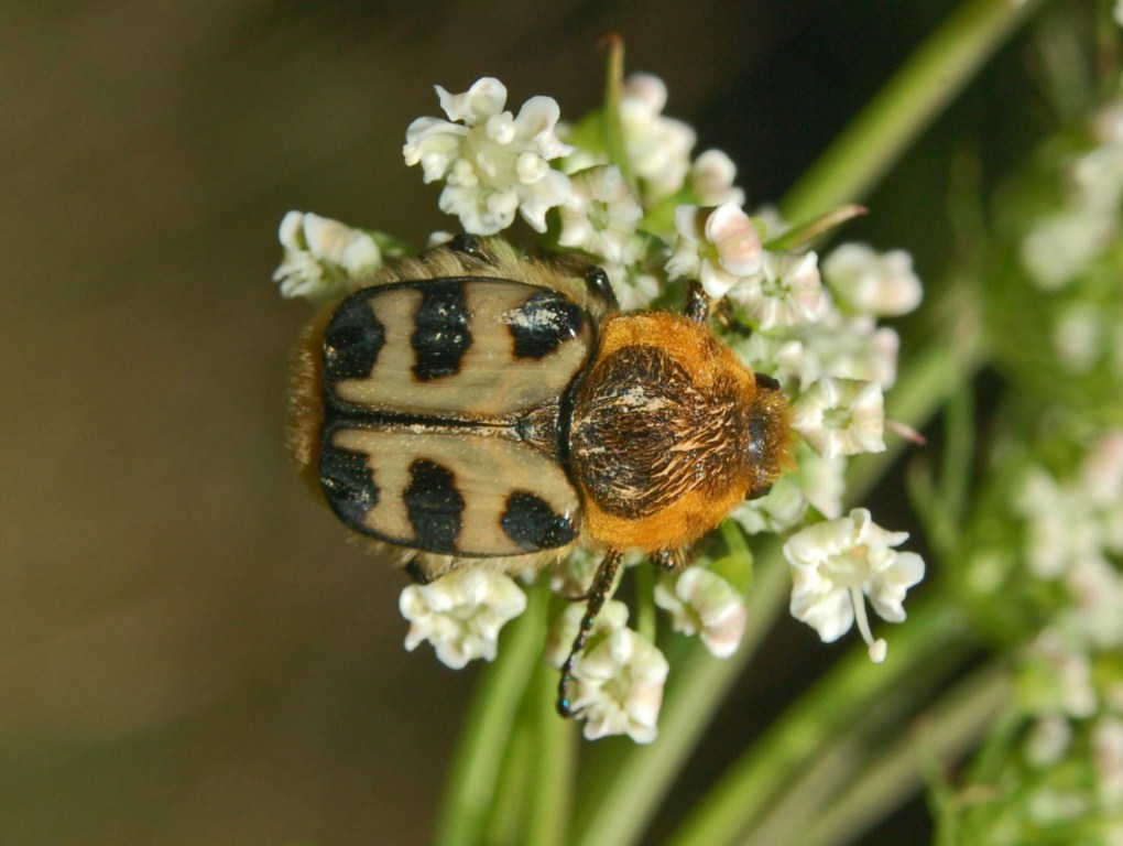 Trichius gallicus